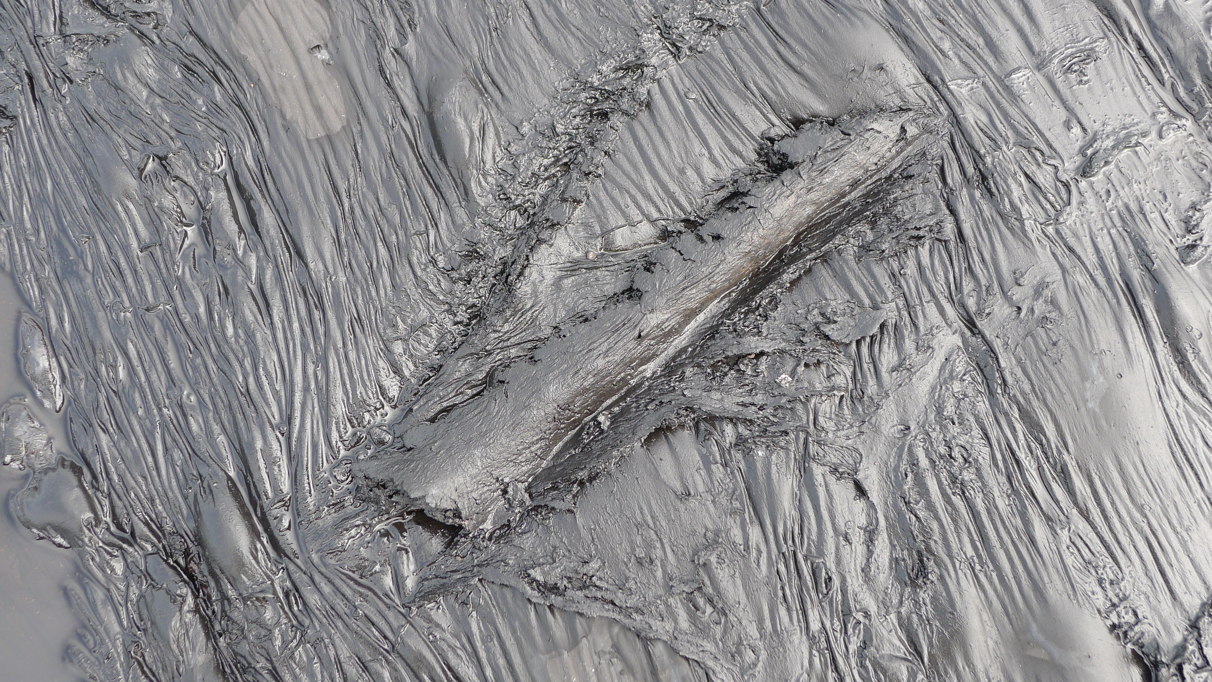 Pitch Lake near La Brea on the Island of Trinidad; close view of embedded wood.